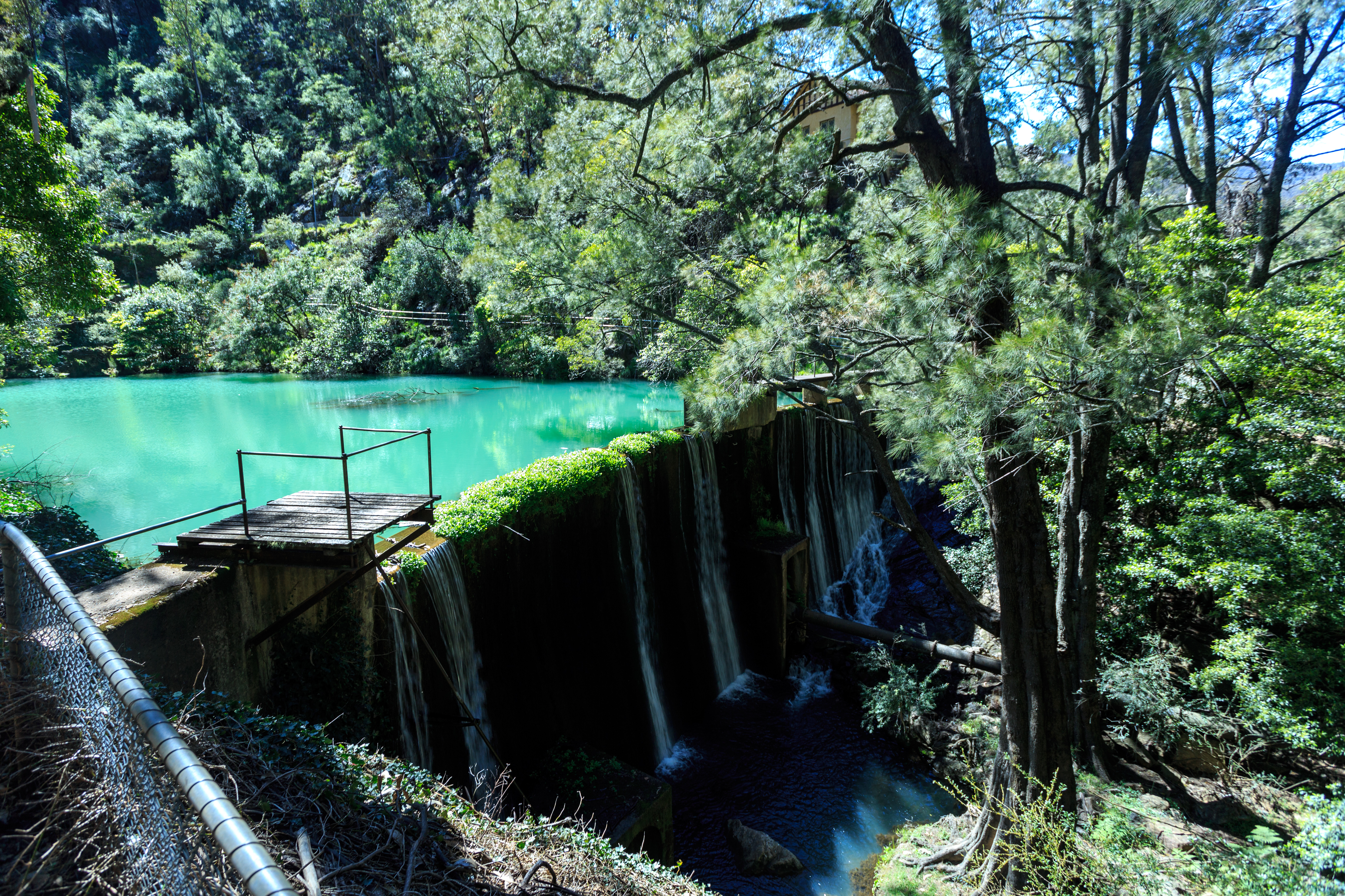 Jenolan River nearby Jenolan Caves